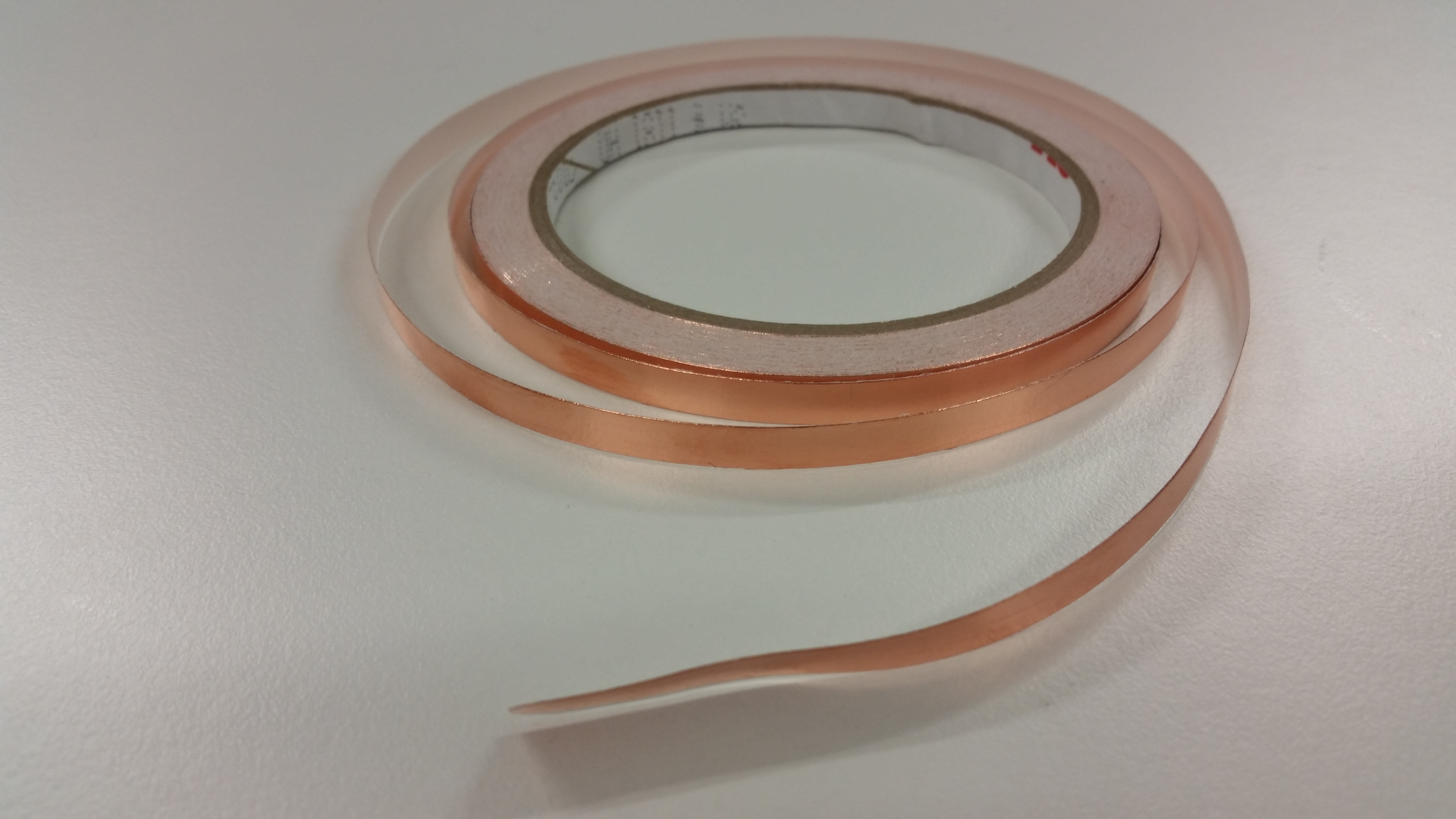 adhesive backed copper tape for making paper electronics